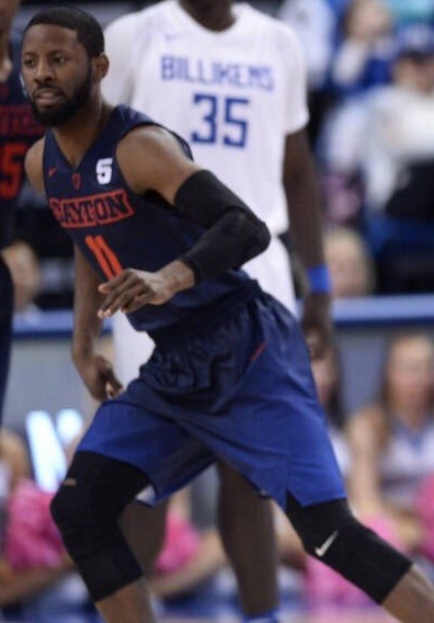 Zeke dribbling the ball for the Billikens in the 16-17 season while playing against The Dayton Flyers